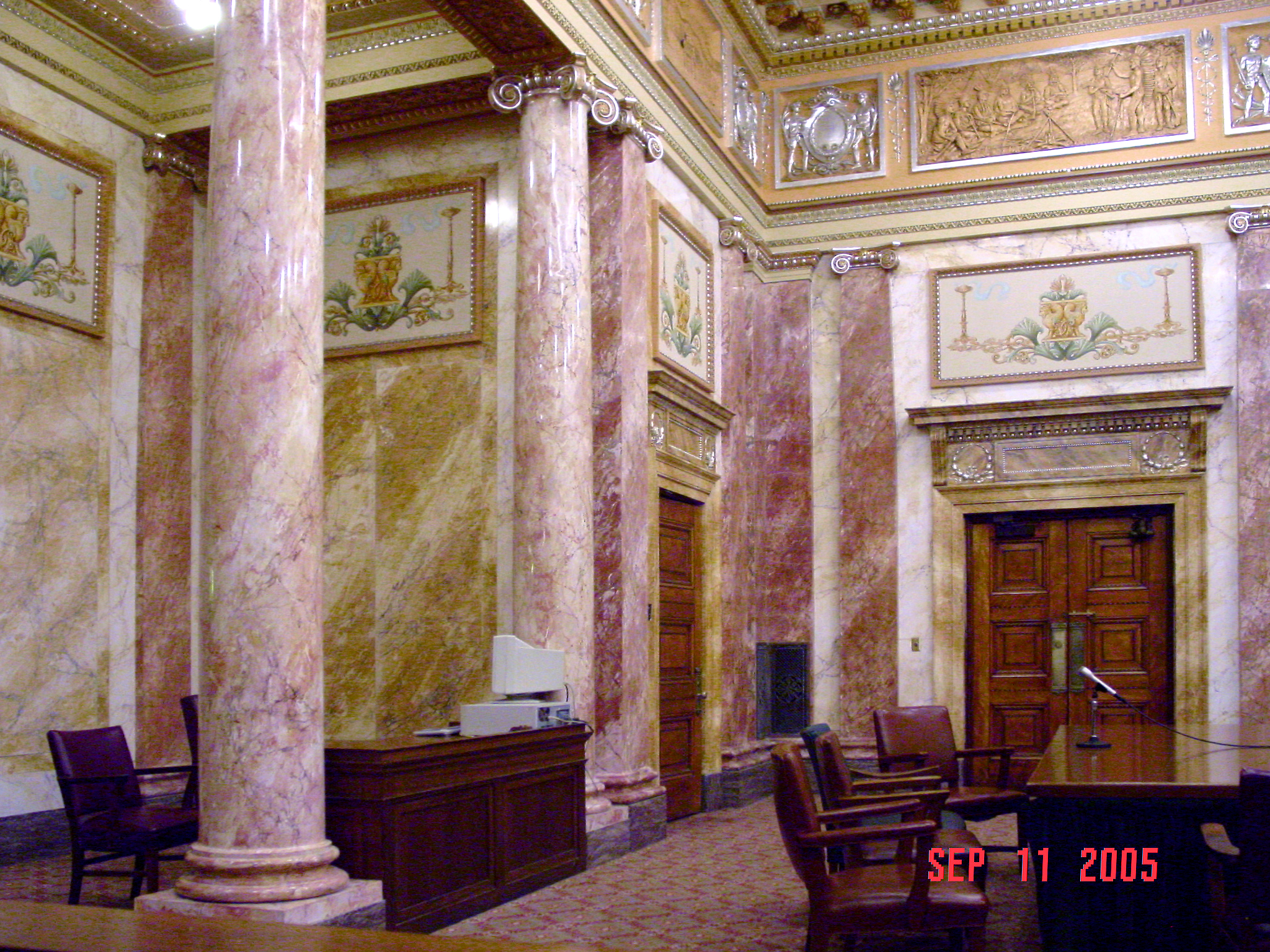 Interior of the restored Allen County Courthouse in Fort Wayne, Indiana USA